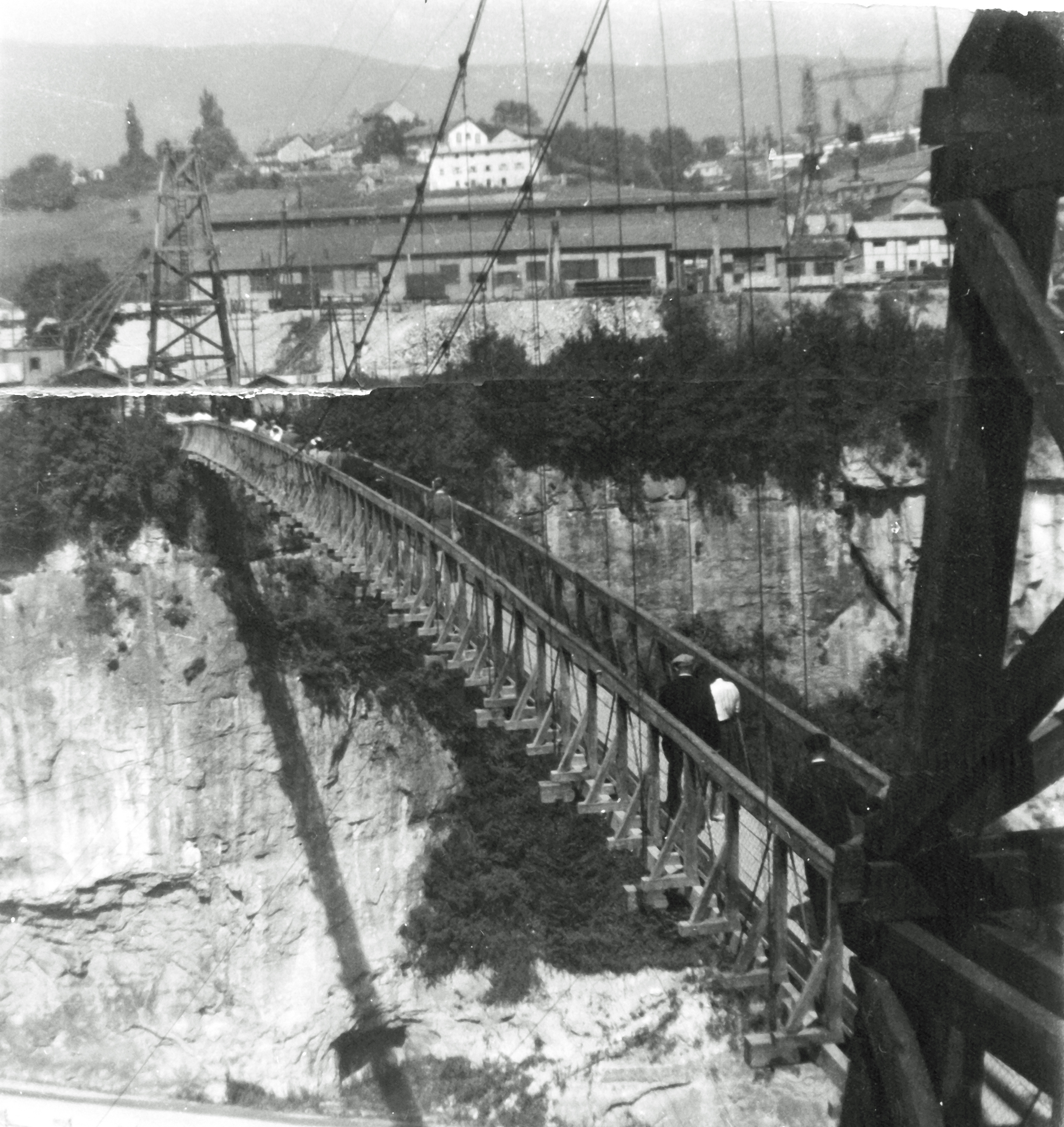 Temporary walkway from the left bank